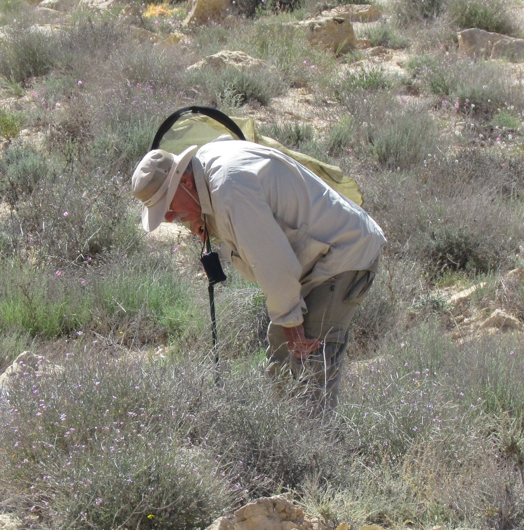 דובי בנימיני בנחל אלות, 2014